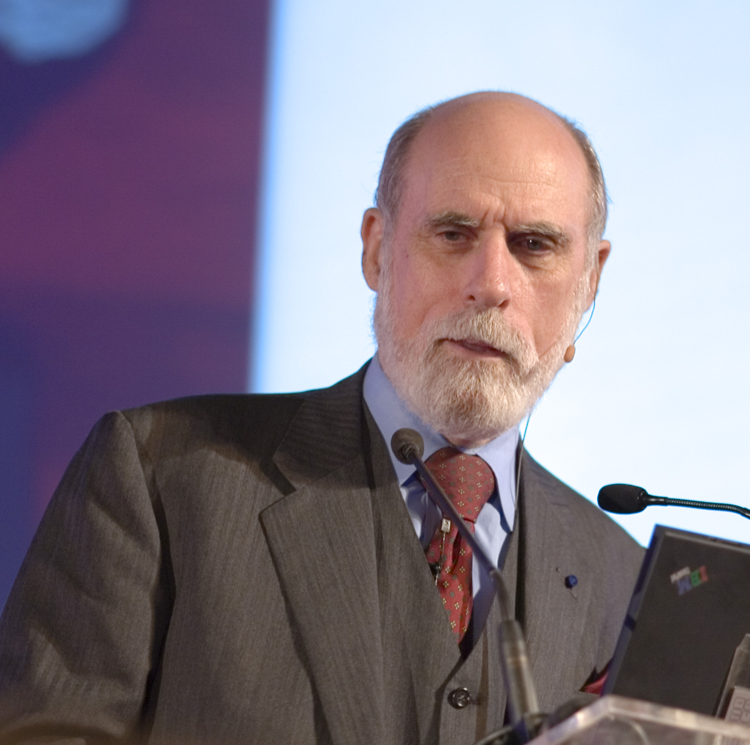 Vint Cerf, North American computer scientist who is commonly referred to as one of the "founding fathers of the Internet" for his key technical and managerial role, together with Bob Kahn, in the creation of the Internet and the TCP/IP protocols which it uses. Taken at a conference in Bangalore.